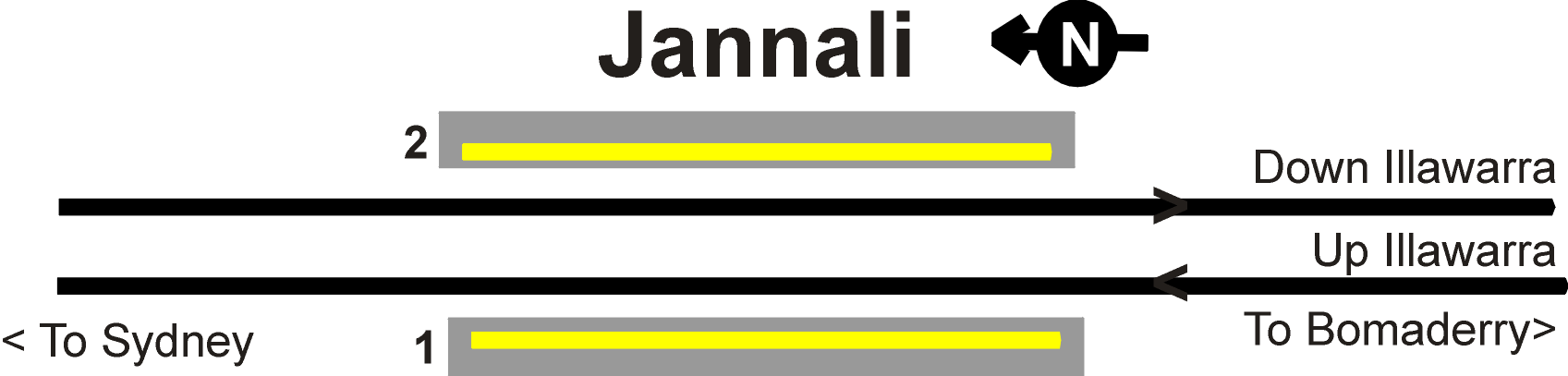 Track layout at Jannali railway station